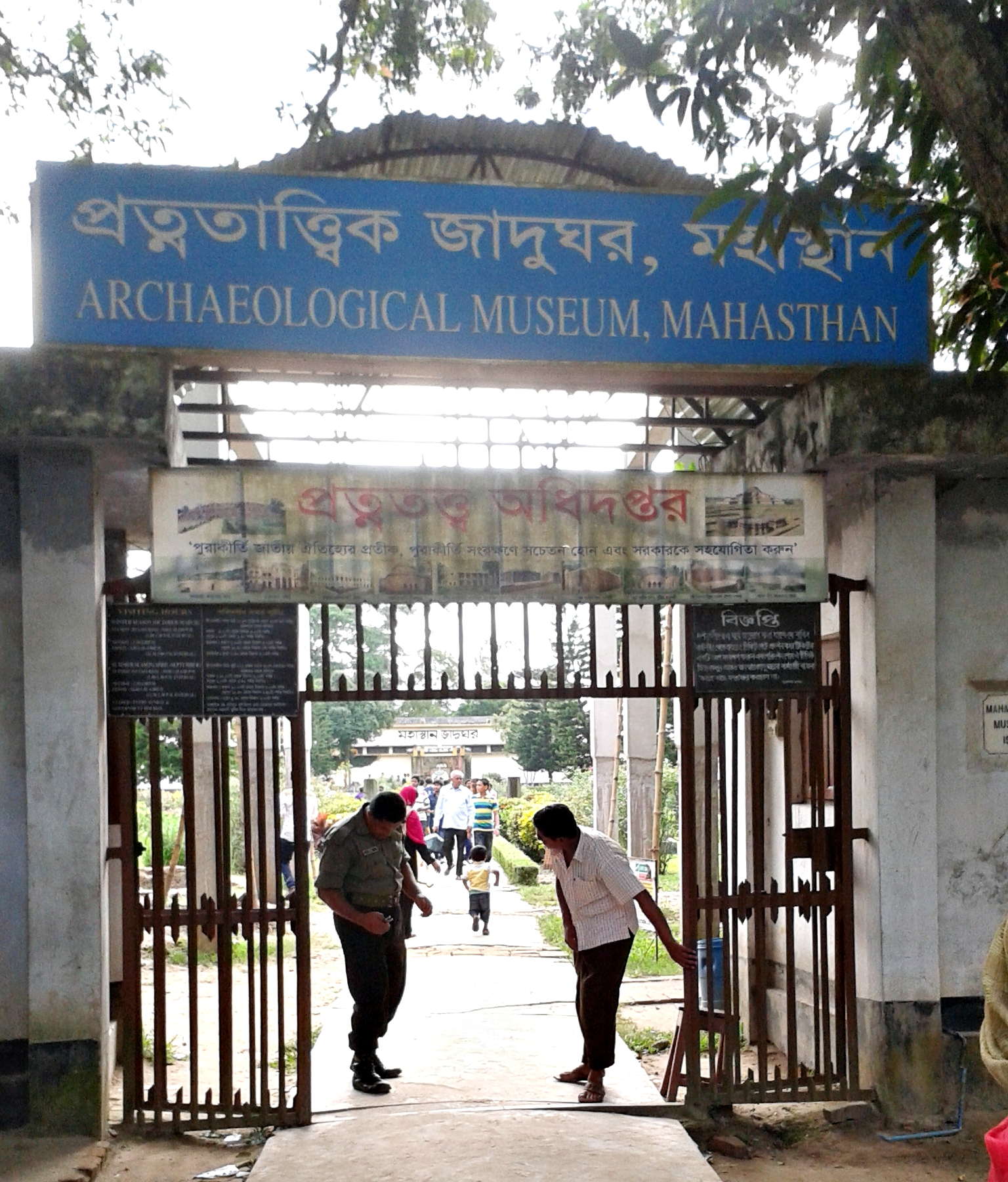 Main gate of Archaeological Museum, Mohasthangarh